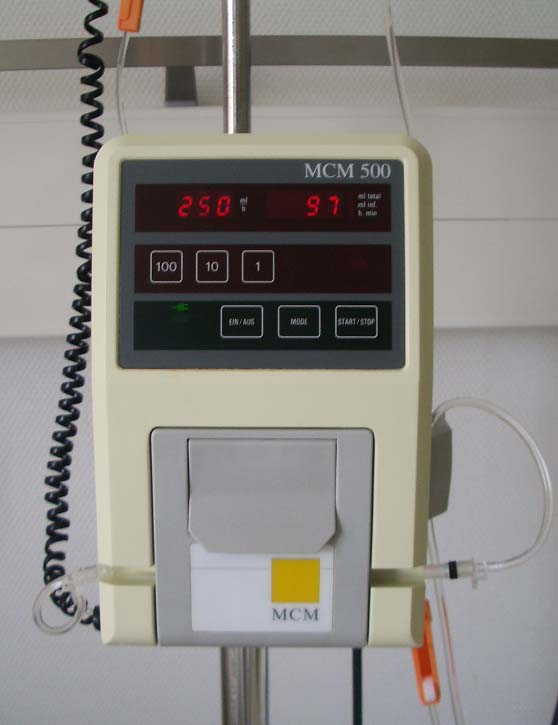 Infusion pump MCM 500 Infusionspumpe